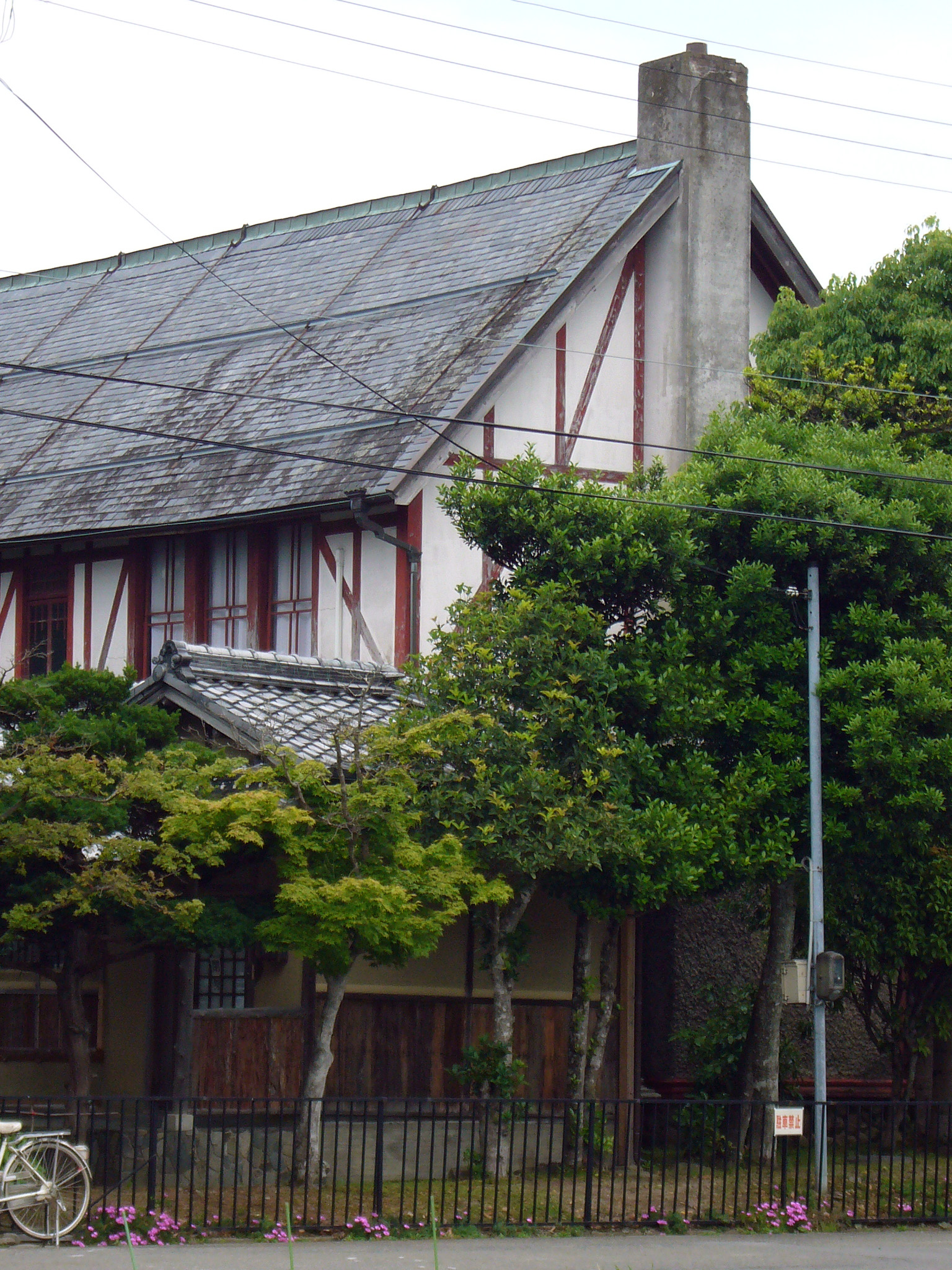 Old Iba House in Azuchi, Shiga, Japan